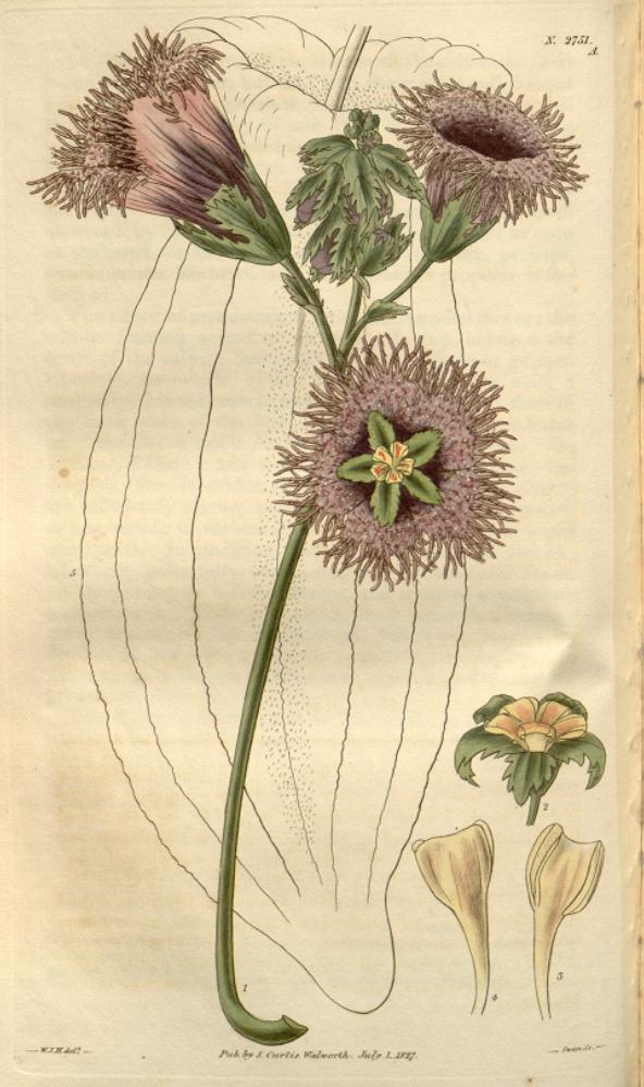 Illustration of a male flower of Telfairia pedata